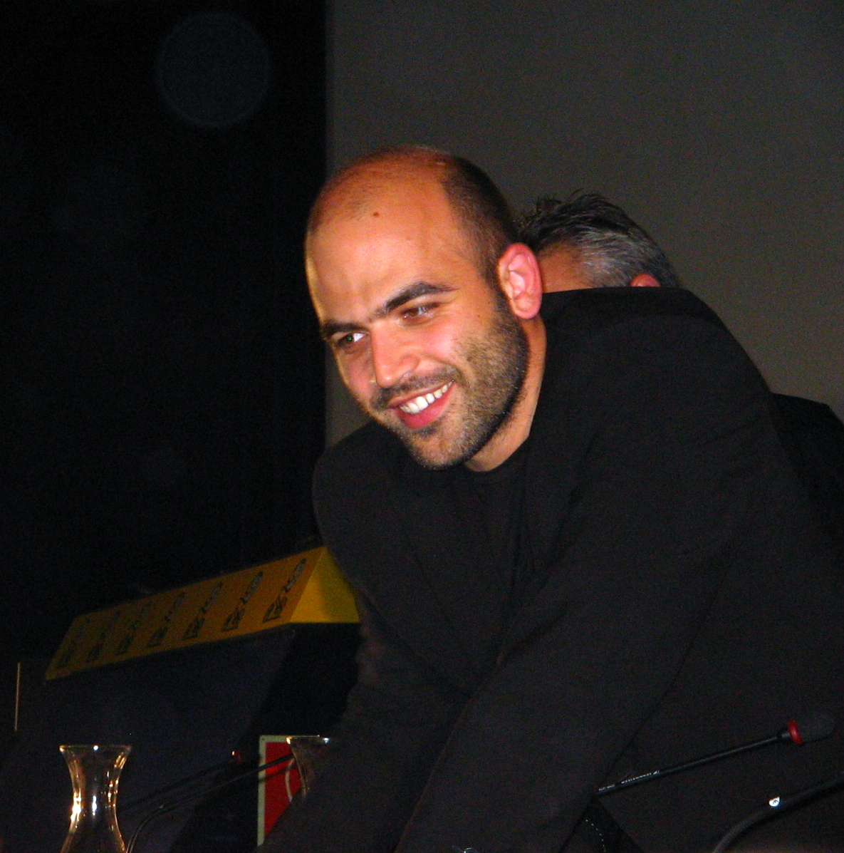 Roberto Saviano, an Italian writer and journalist